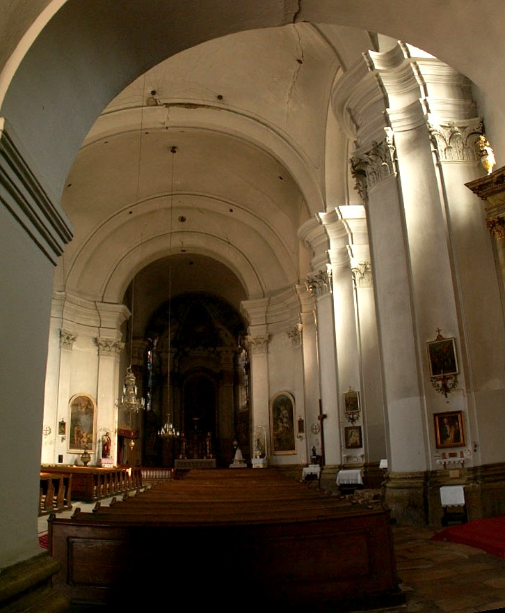 The Dumbrăveni (Elisabetopole, Erzsébetváros) Armenian Catholic cathedral, inside view.